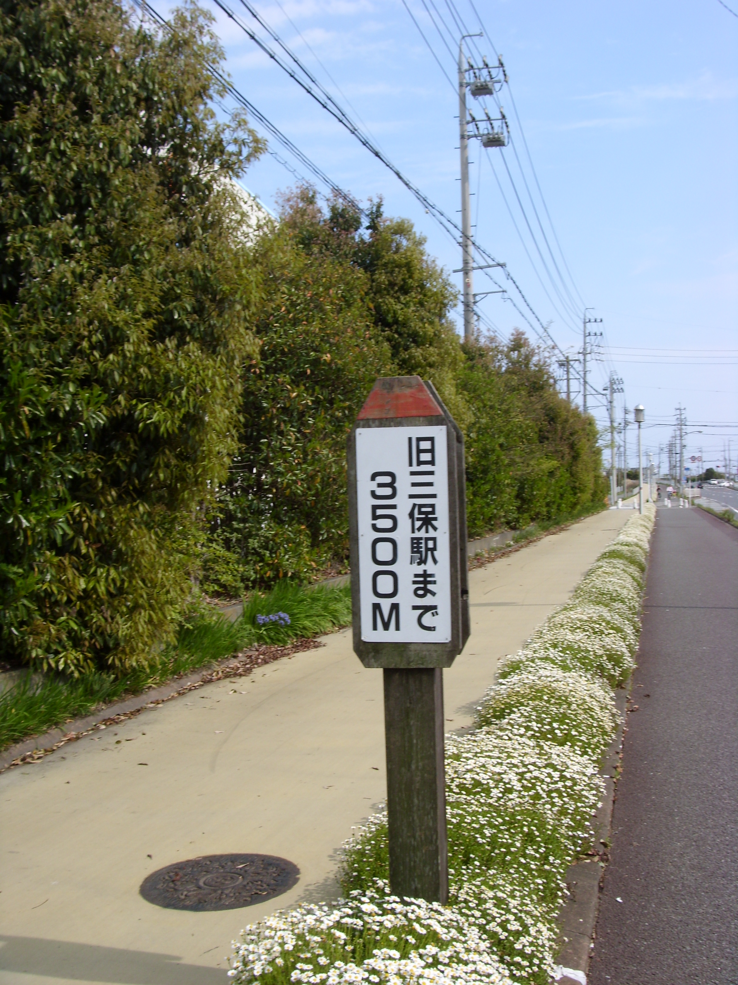 notice to former miho station